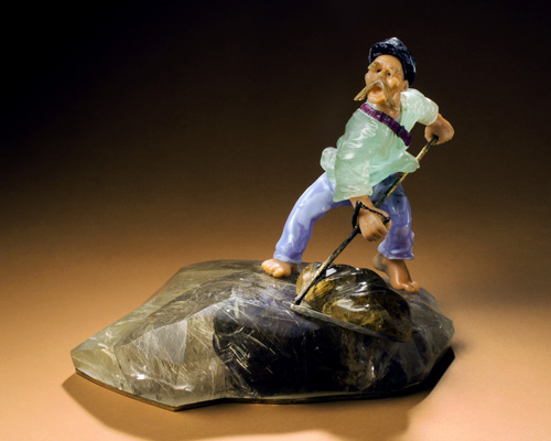 The gem sculpture "Mower" (1983) by Vasily Konovalenko. This image is from the image archives of the Denver Museum of Nature and Science, Denver, Colorado USA. Archive file name IV.DMF.1-11.f.jpg. Catalog number DMF.1-11.f. The sculpture, along with about 20 others, is on display at the Museum. Used in the Wikipedia page Vasily_Konovalenko.